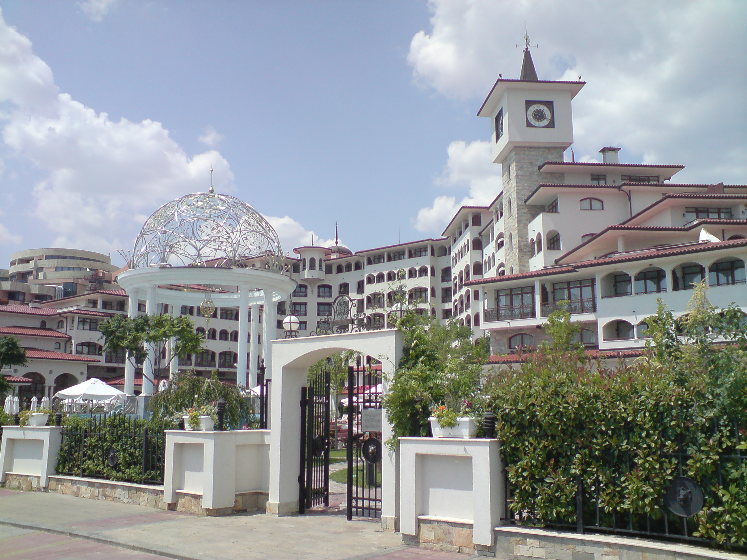 Sunny Beach, Bulgaria, july/august 2008